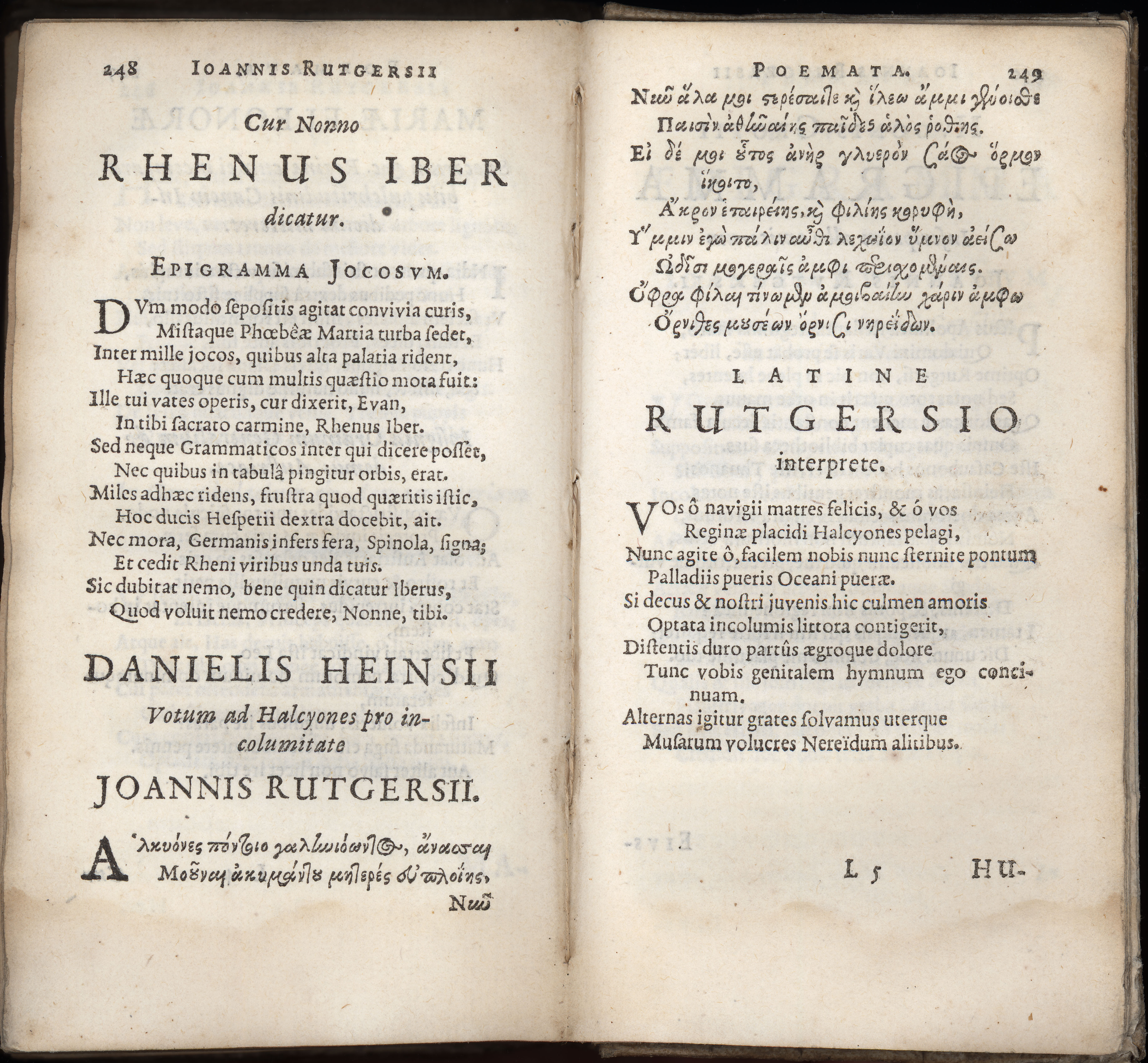 The delicate 17th century Elzevier Roman and Greek typeface. Page 248-249 of Nikolaes Heinsius the Elder, Poemata (Latin poems), first edition, printed by the Elzevier/Elsevier printers in Leiden, 1653. The full Latin title reads: Nicolai Heinsii Dan[ielis]. Fil[ii]. Poemata. Accedunt Joannis Rutgersii, Quæ quidem colligi potuerunt. Lugd[uni]. Batav[orum]. Ex Officinâ Elseviriorum Academ[icorum] Typograph[orum]. M DC LIII. The edition also contains the collected poems of Jo(h)ann Rutgers, the present pages contain poems by Rutgers.